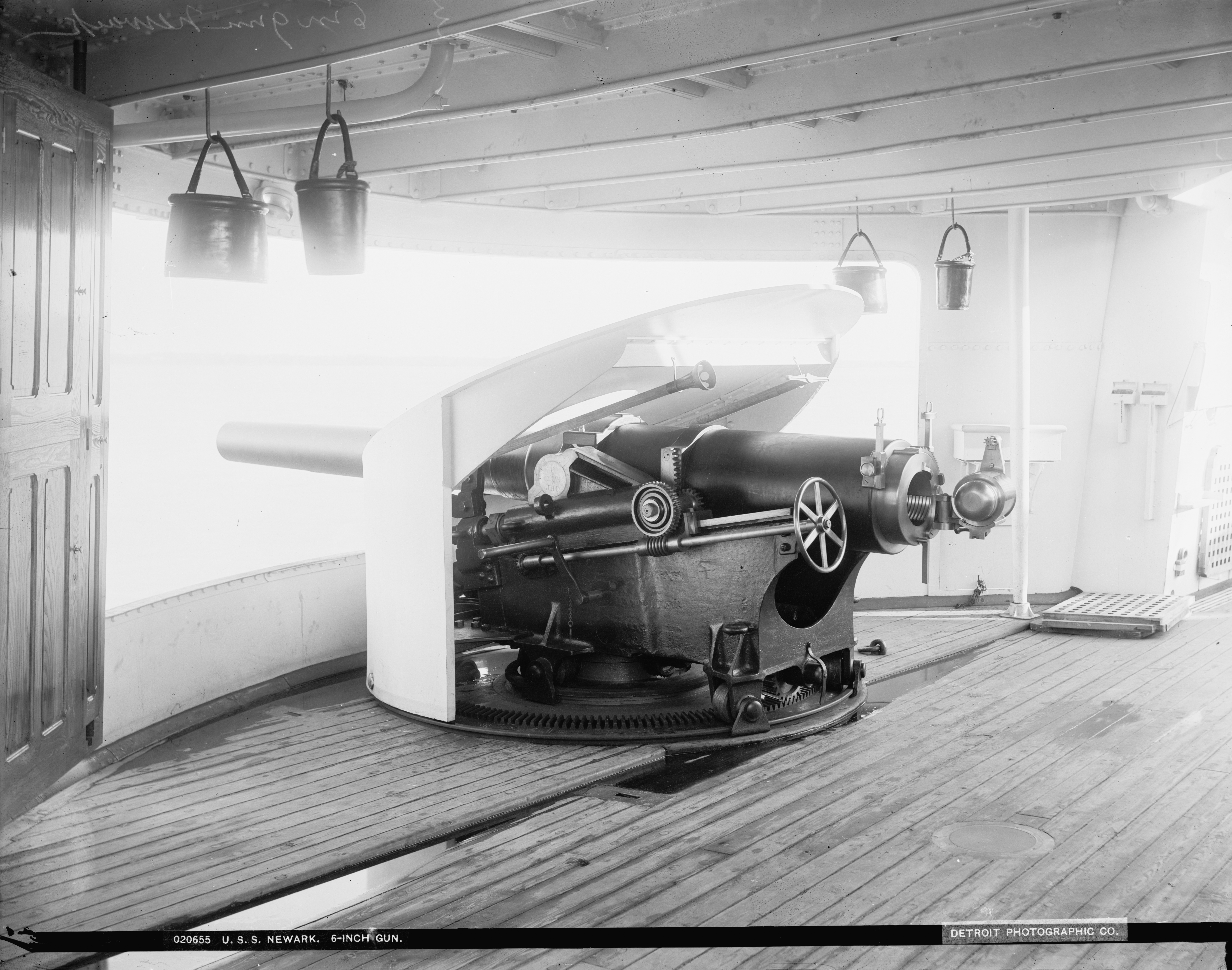 Photograph of 6 inch gun on USS Newark.